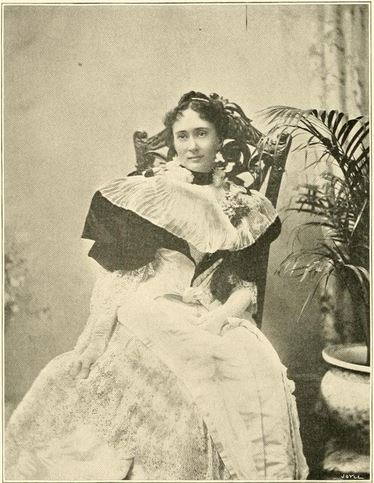 Elizabeth B. White